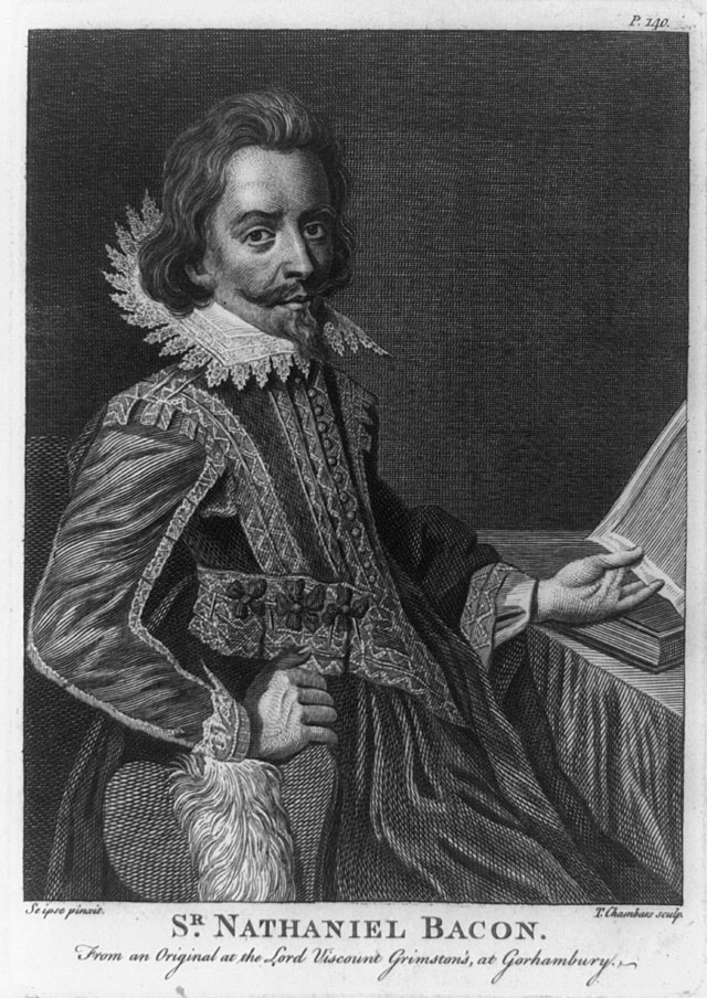 LOC description is "[Nathaniel Bacon, three-quarter length portrait, seated, facing right] Engraving by T. Chambars after a painting by Seipse. created/published [between 1760 and 1800]." This is Sir Nathaniel Bacon, 1585-1627, the painter.